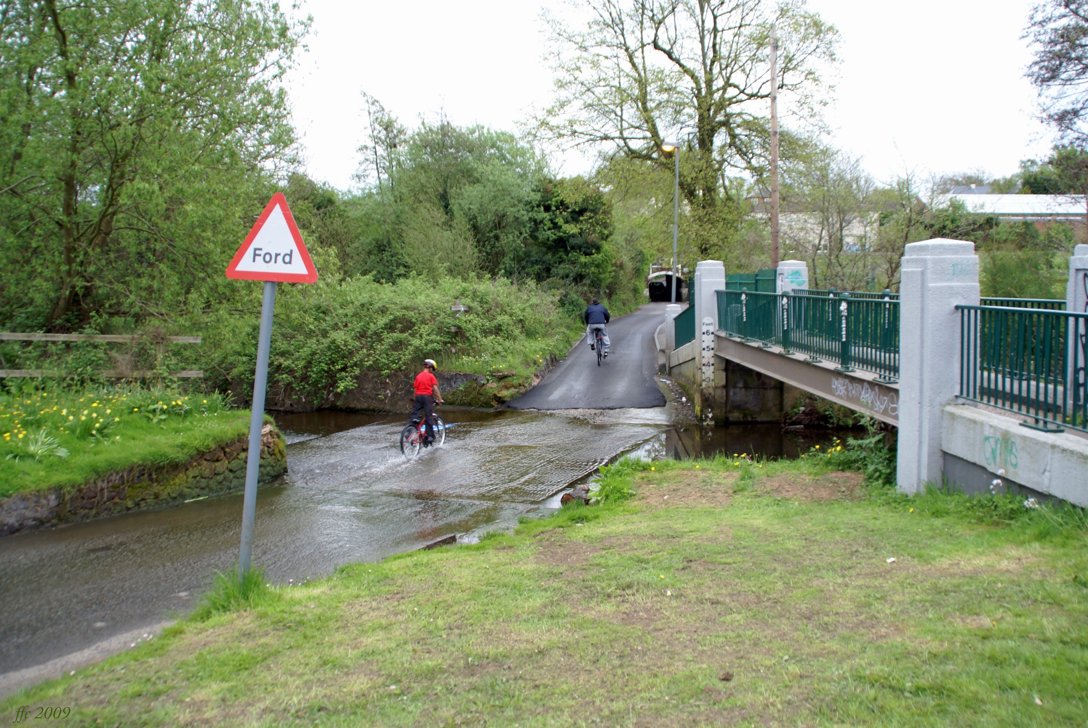 Birmingham (United Kingdom): A ford on the River Rea at the Mill Walk in Northfield